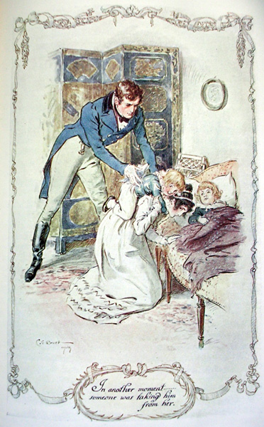 Persuasion(ch. 9) Jane Austen: In another moment ... someone was taking him from her.